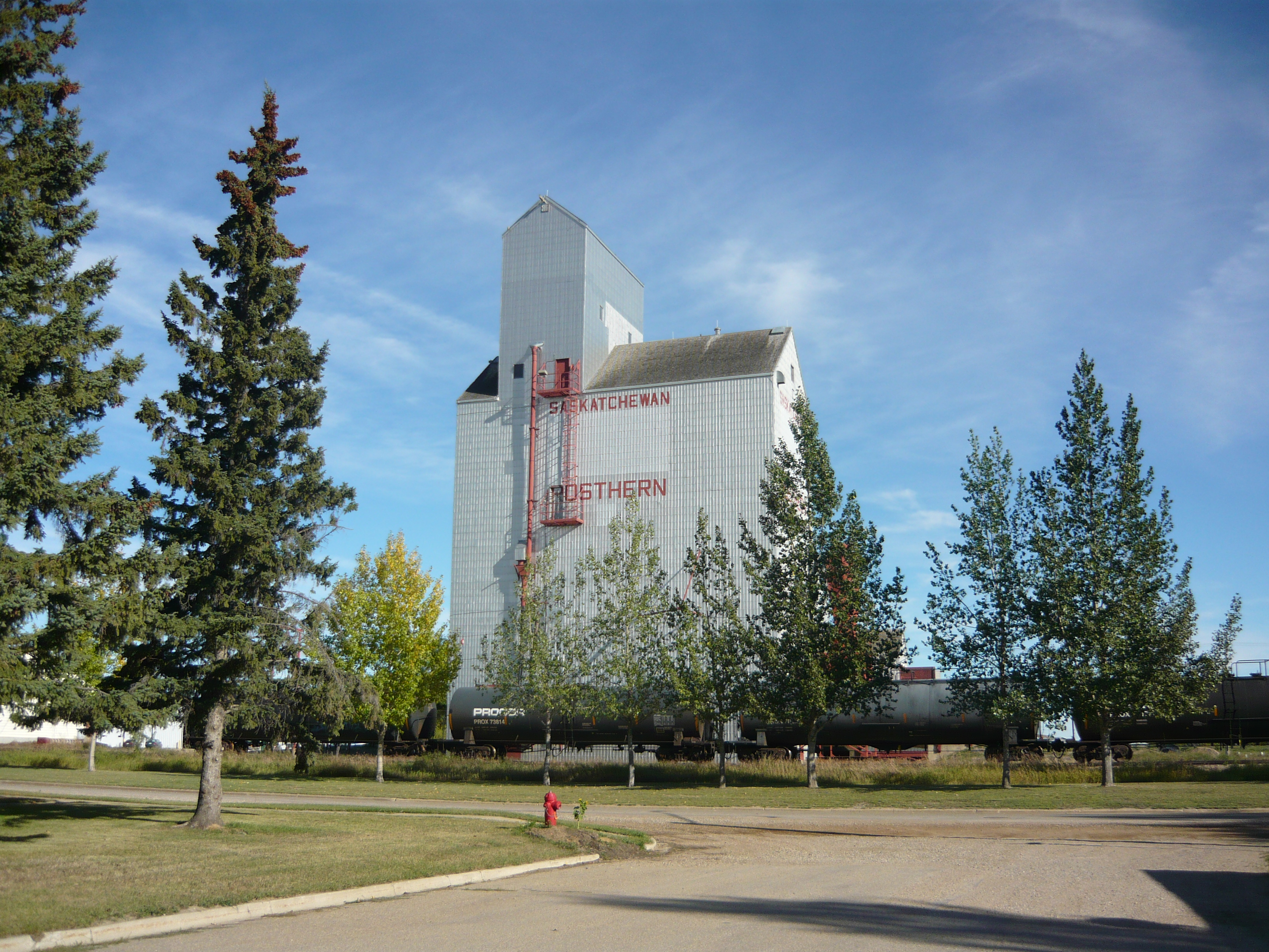 Grain elevator in Rosthern, Saskatchewan, Canada, taken from intersection of Railway Avenue and First Street, looking southeastward.